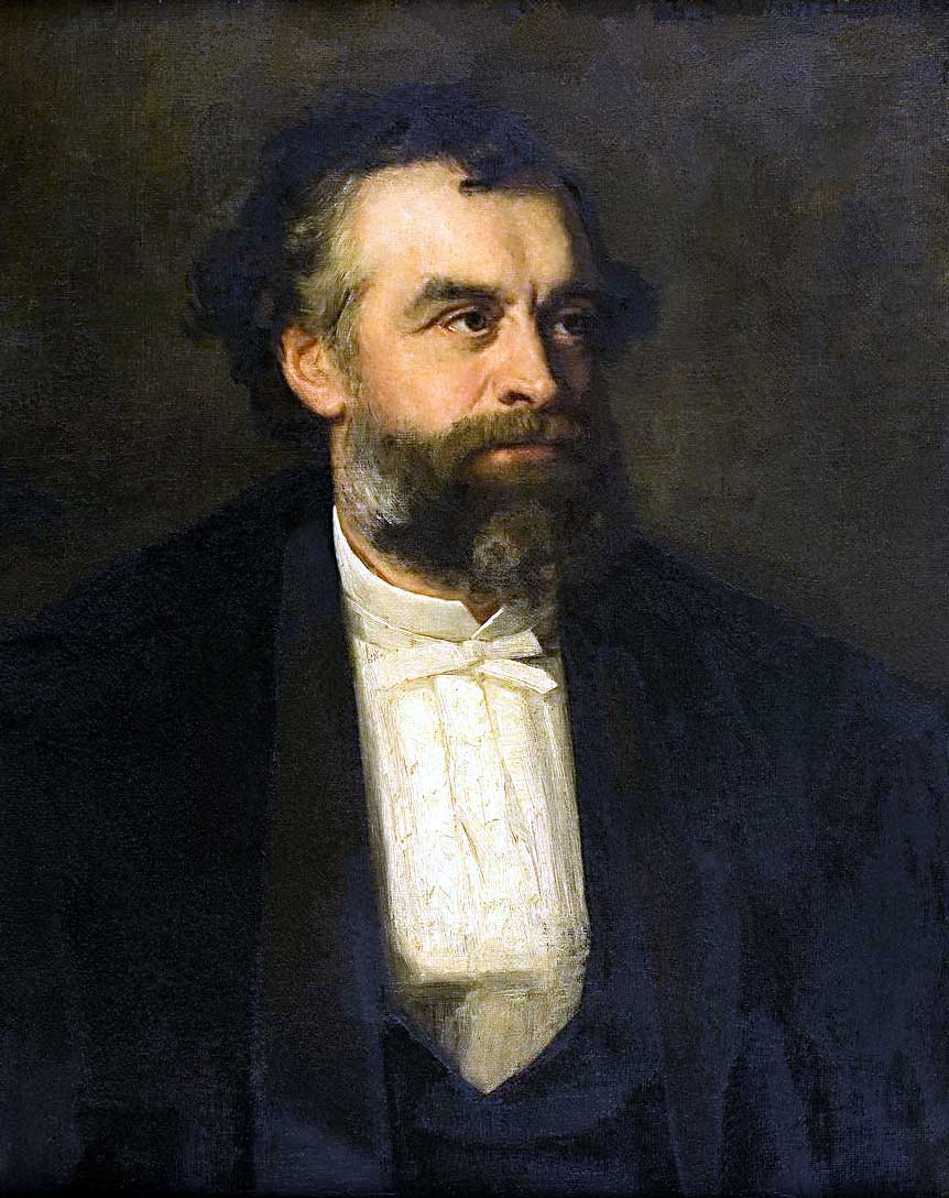 Adriaan Heynsius (1831-1885), professor physiology Leiden University